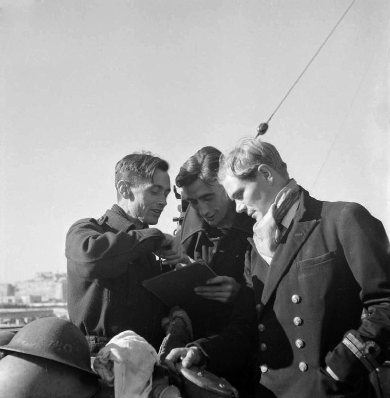 Three Enemy Destroyers Sunk in 1 1/2 Hours. 22 November 1944, on Board HMS Wheatland, Malta. the Hunt Class Destroyers HMS Wheatland and HMS Avonvale Sank Three Enemy Destroyers Within 1 1/2 Hours on 1 November 1944, in the Adriatic Near Pag Island. Lieutenant T L Syms, RN, of Glasgow, the 1st Lieutenant (right) with Signalman W J Hatherway of Stratford on Avon, and Chief Yeoman R Patheyjohns, of Plymouth.